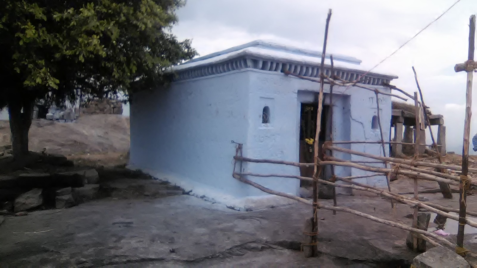 கிருட்டிணகிரி மாவட்டம் போளுமலையின் உச்சியில் உள்ள திம்மராயன் கோயிலின் தோற்றம்